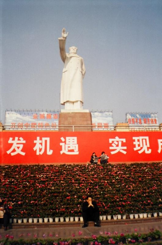 Mao Zedong with raised arm looms over the locals in People's Square, Chengdu.